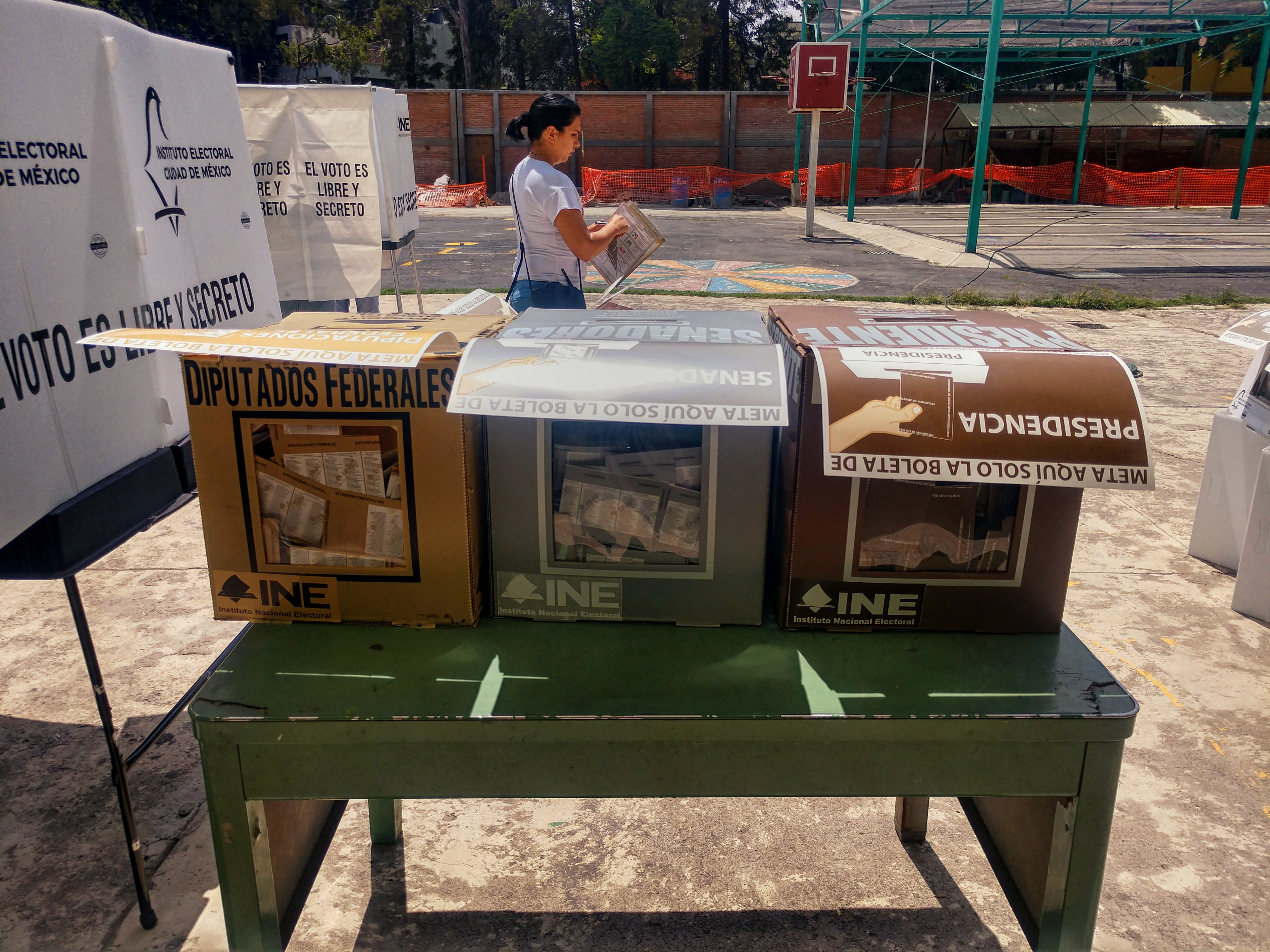 People voting in the Mexico General Election, July 1st, 2018. Mexico City, Mexico.